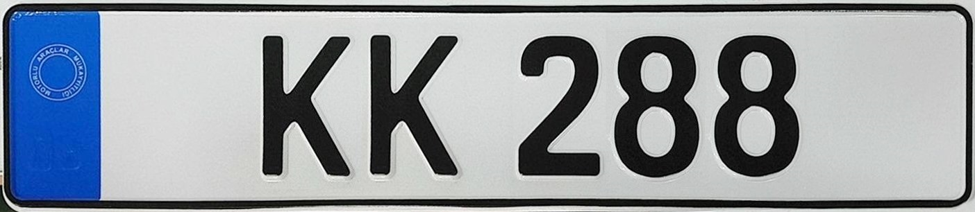 Turkish Republic of Northern Cyprus "Euroband" since 2018